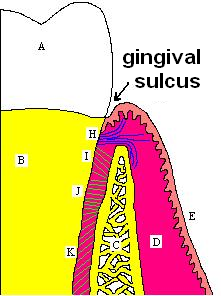 Gingival and periodontal pockets are extensions of the gingival sulcus, which exists in health. A, crown of the tooth, covered by enamel. B, root of the tooth, covered by cementum. C, alveolar bone. D, subepithelial connective tissue. E, oral epithelium. H, principle gingival fibers. I, alveolar crest fibers of the PDL. J, horizontal fibers of the PDL. K, oblique fibers of the PDL.